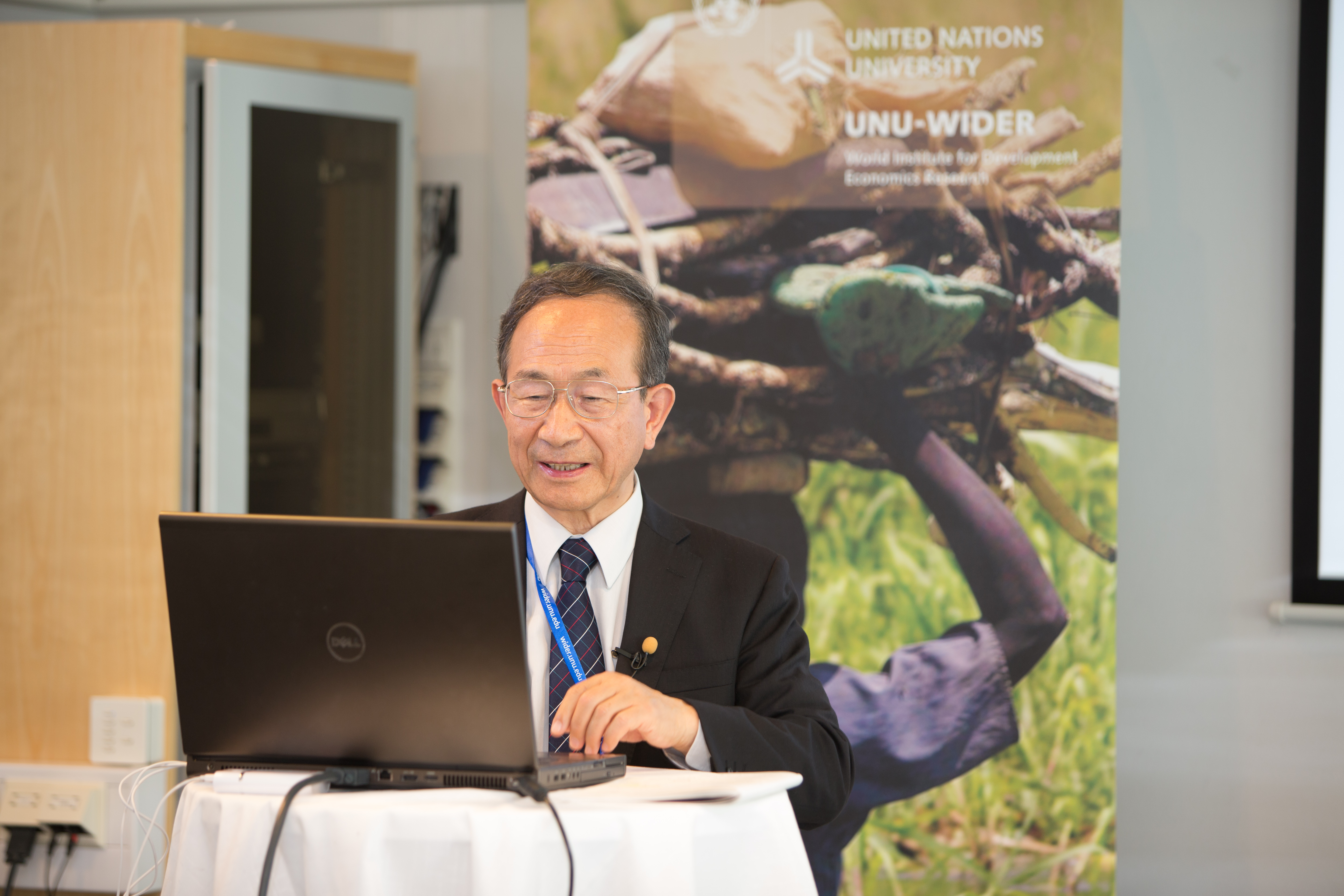 Akio Hosono, Senior Research Advisor of the Research Institute, Japan International Cooperation Agency, presented about the Industrial Strategy and Economic Transformation: Lessons from Outstanding Cases at the Conference on Learning to Compete Industrial Development and Policy in Africa in Helsinki City, Uusimaa Region on June 25, 2013.